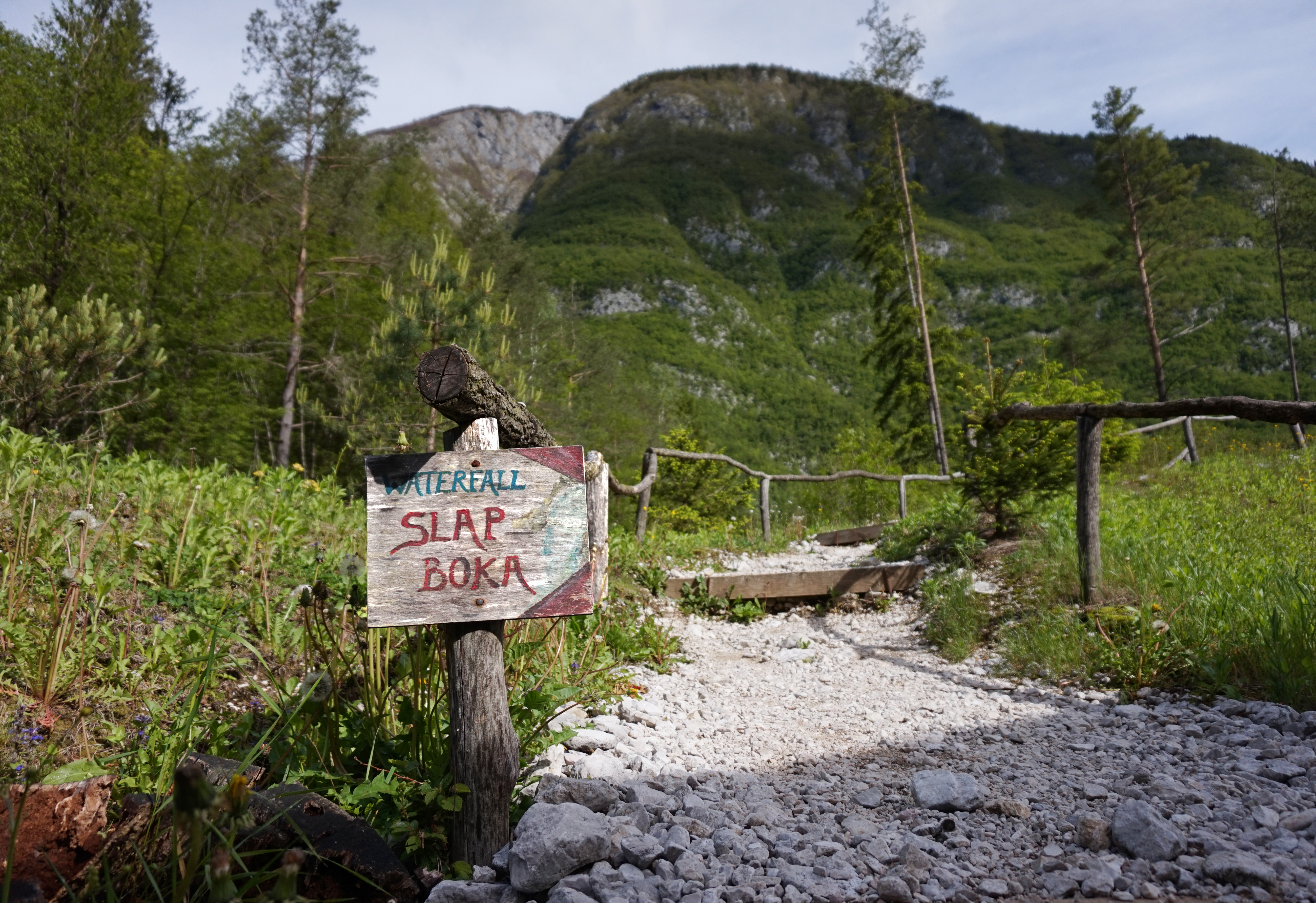 A trail sign for Boka waterfall, Slovenia. This photograph was taken with a Sony Alpha a5000.